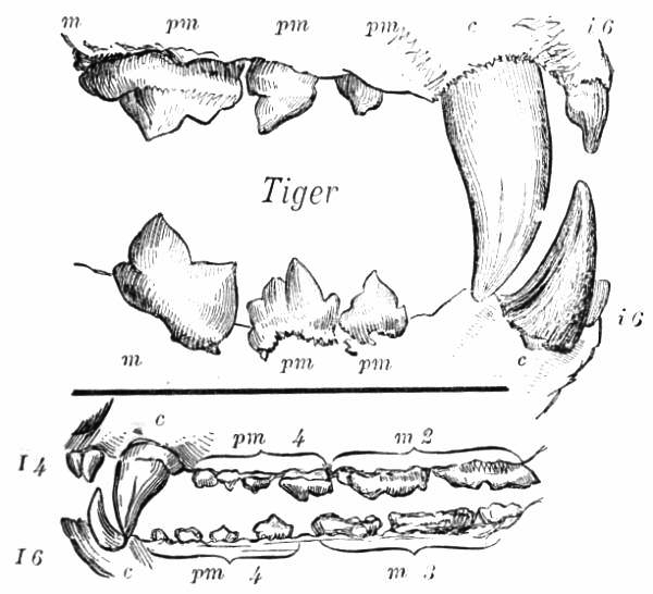 Dentition of the tiger Panthera tigris